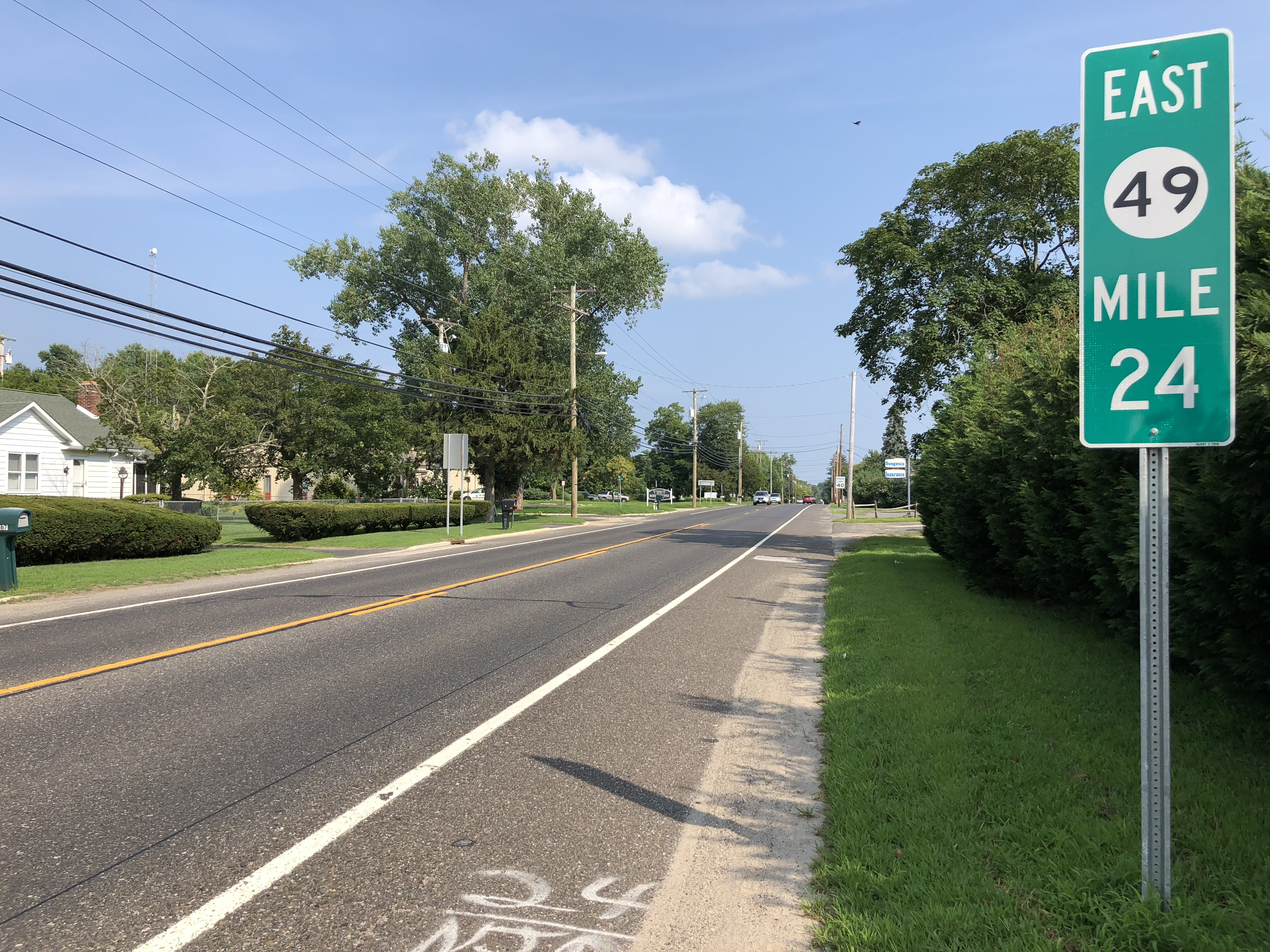 View east along New Jersey State Route 49 (Shiloh Pike) between Hillside Avenue and Stell Street in Hopewell Township, Cumberland County, New Jersey